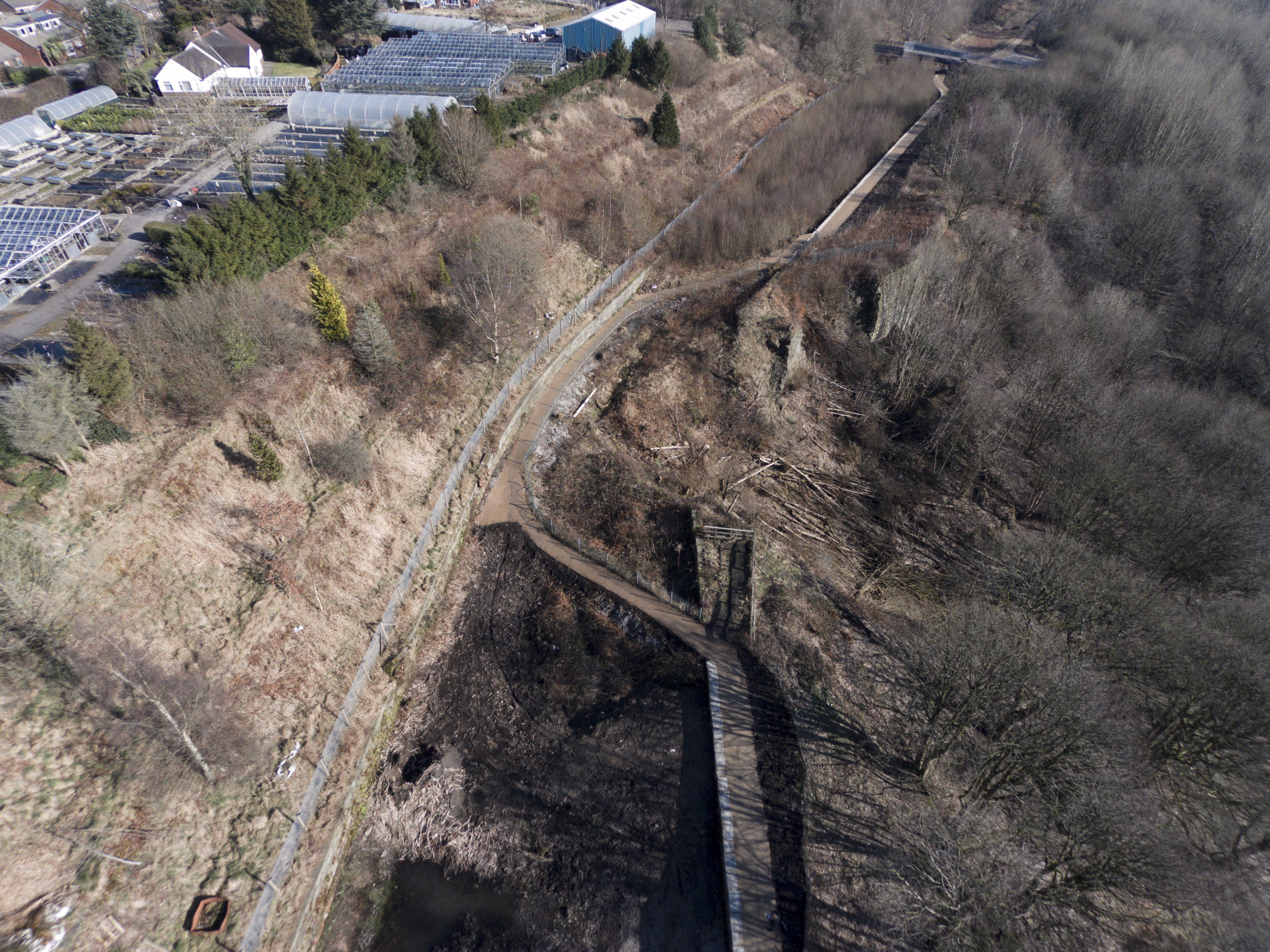 An aerial view of the 1936 canal breach at Nob End, Little Lever, Bolton. Also seen is a new path around the breach.